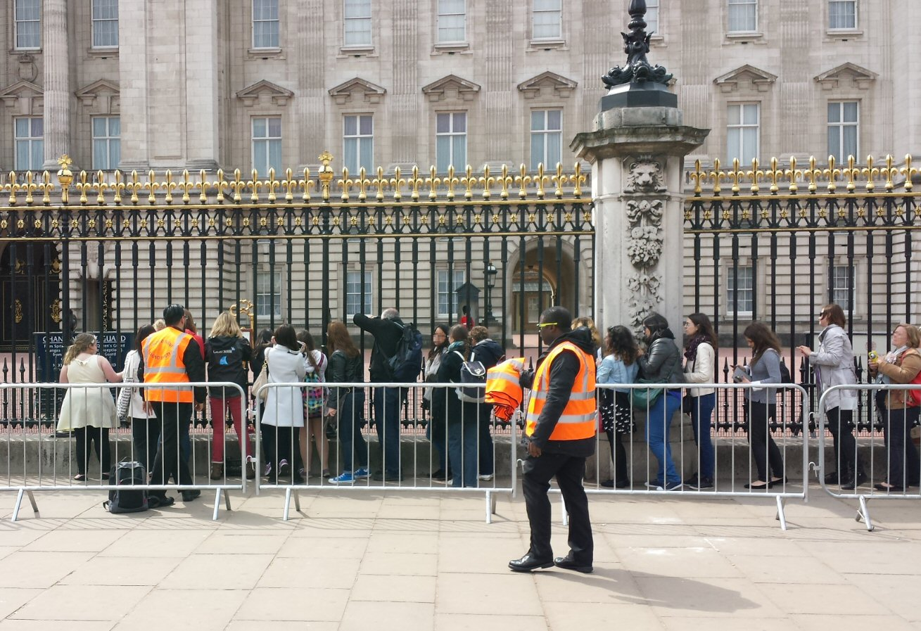 The queue outside Buckingham Palace, London, to view the official announcement of the birth of Princess Charlotte at 13:15 on 2 May 2015. The ornate golden easel holding the announcement is just visible behind the railing, centre left.